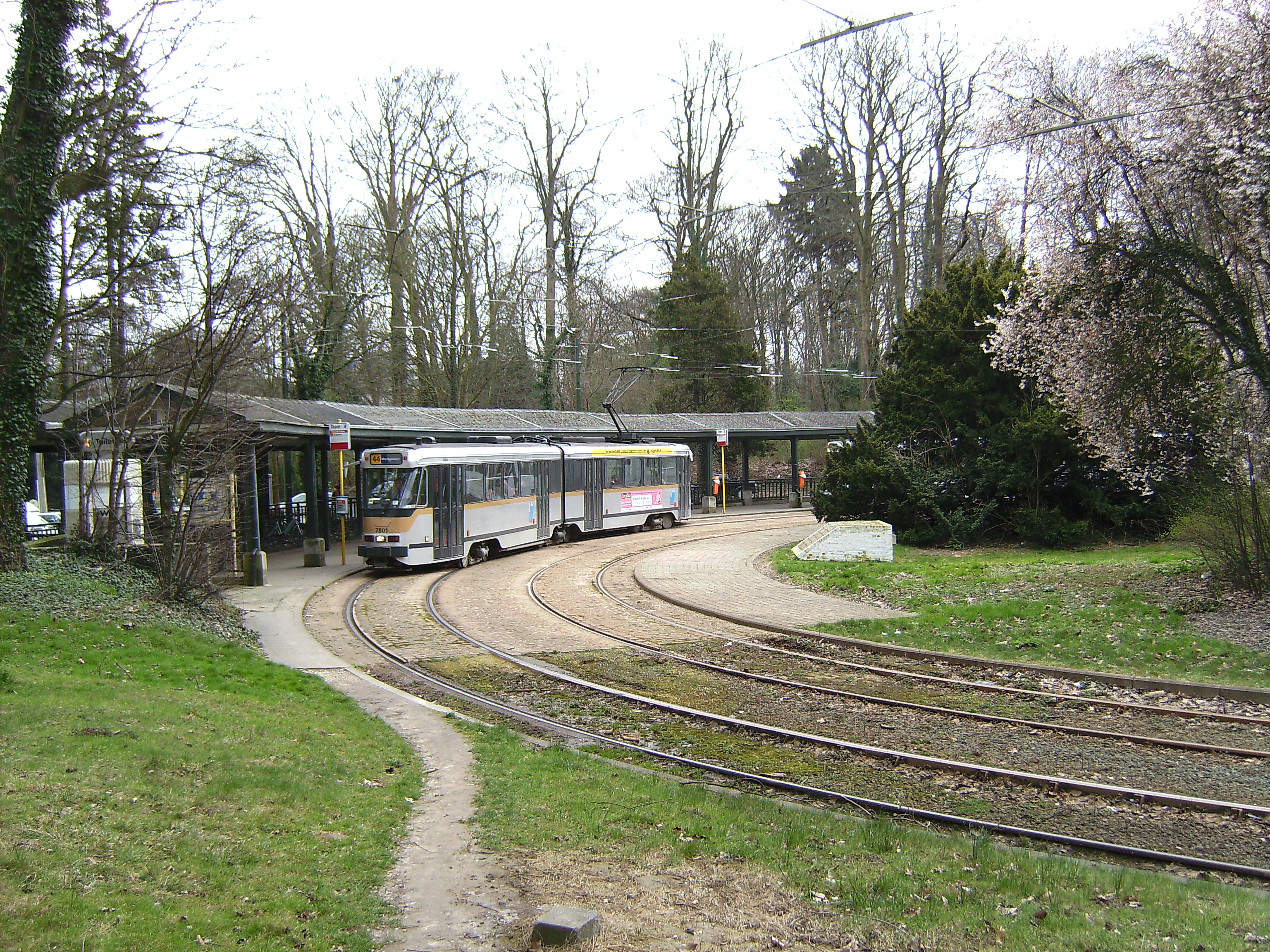 View of the terminus tram stop of the Brussels tramway line 44. This tram stop is actually located outside Brussels, in the Flemish town Tervuren. The tram standing at the stop is No 7801.